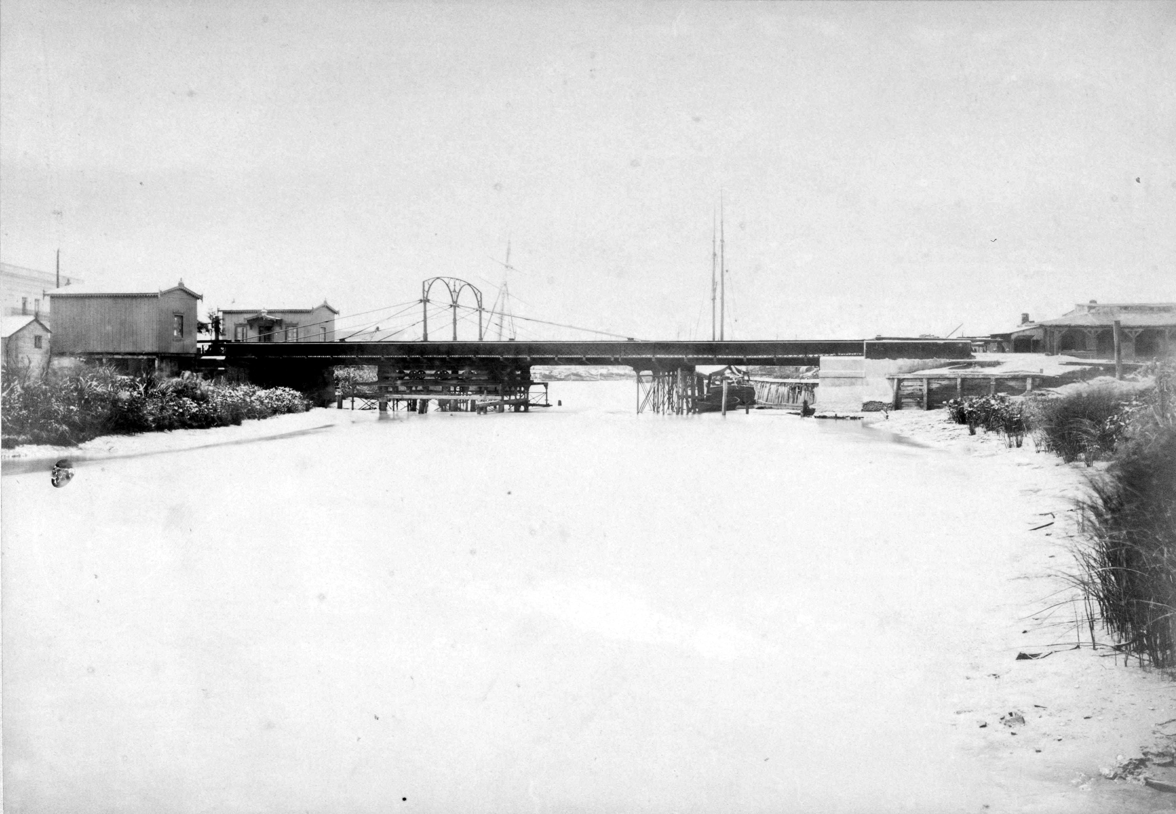 The first Pueyrredón bridge over the Riachuelo of Buenos Aires, named to honor the memory of Arq. Prilidiano Pueyrredón, designer of the bridge who had died one year before it was opened (1871). The bridge would be destroyed by the flooding in 1884 and replaced by a wood brige. Finally, a new "Puente Pueyrredón" made of iron, was inaugurated in 1903.